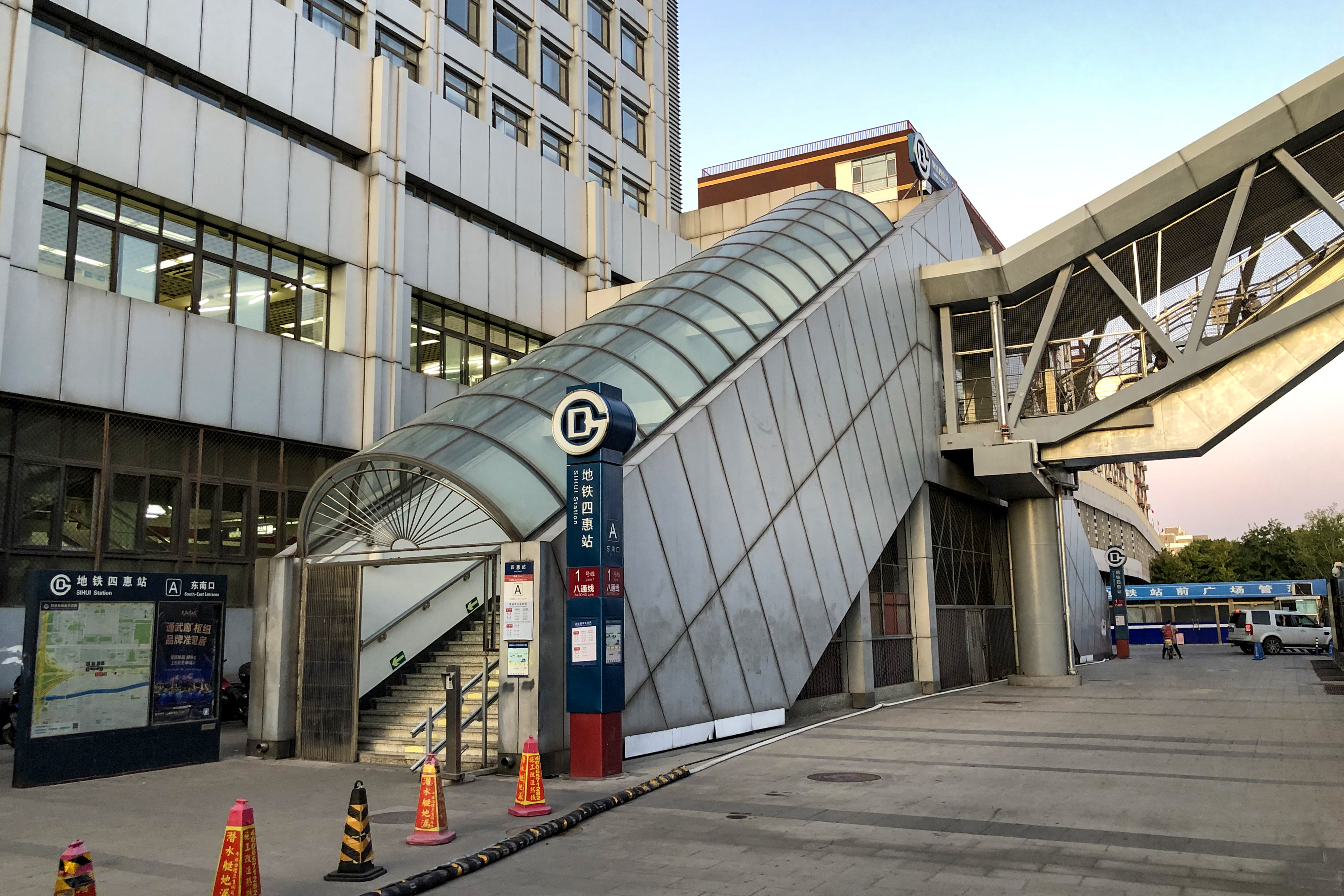 Extended to hub.